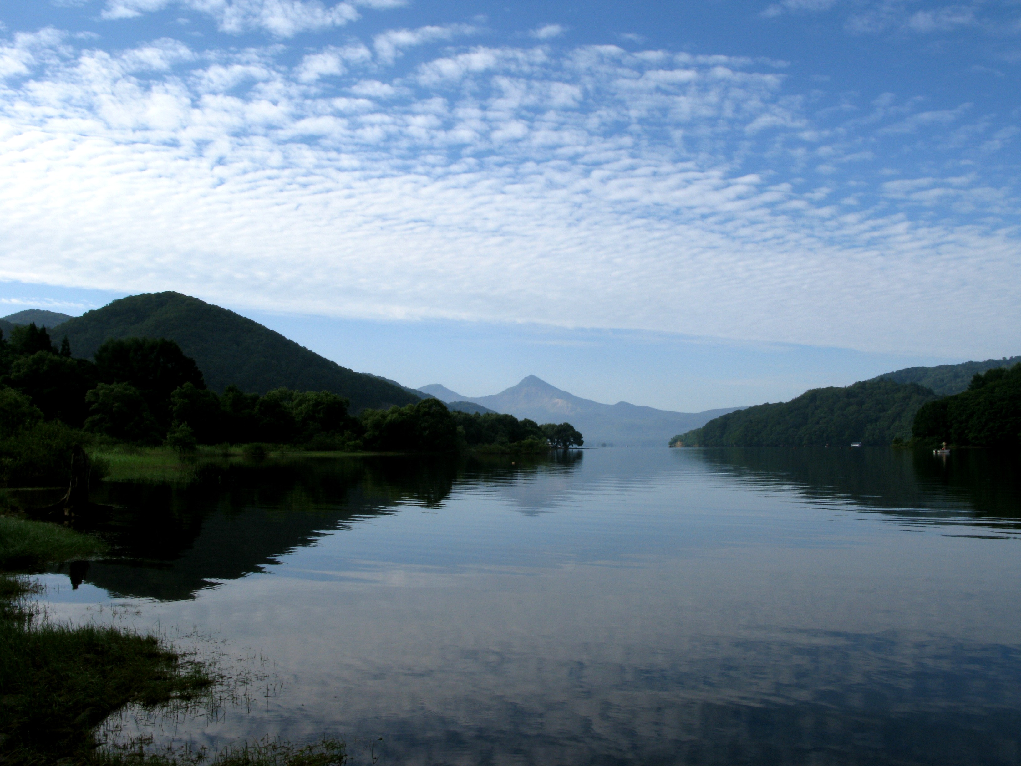 Lake Hibara-ko, Fukushima pref., Japan